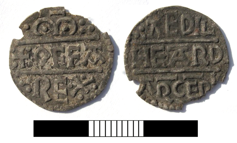 An early medieval silver penny of Aethelheard, Archbishop of Canterbury (793-805) with Offa of Mercia as overlord; second issue (793-6); mint: Canterbury; North 229. The coin appears to be a die duplicate of two coins- see KENT-3CB7A7 and one recorded by EMC from near Wye, Kent (EMC 1996.0153).